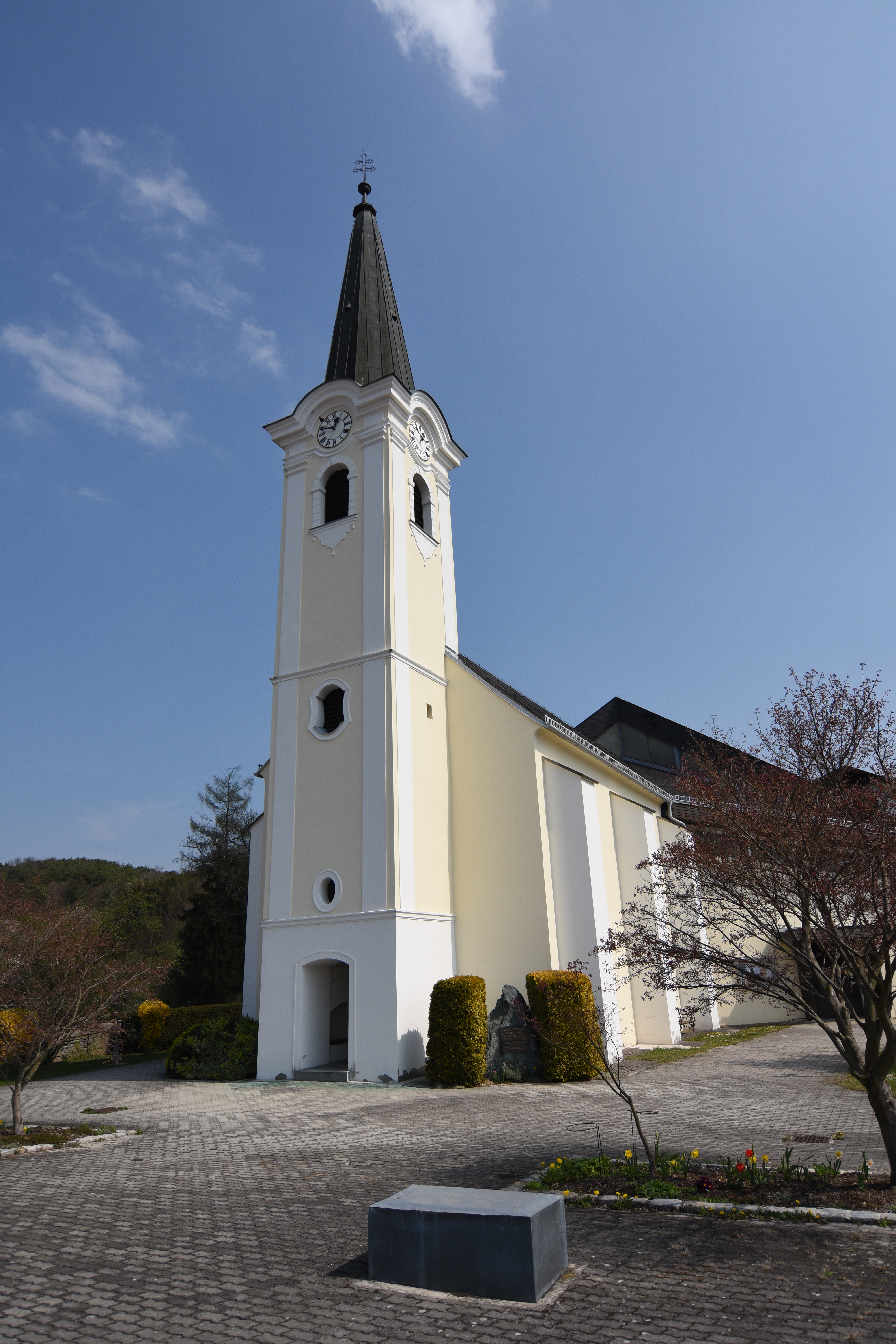 Church Pilgersdorf